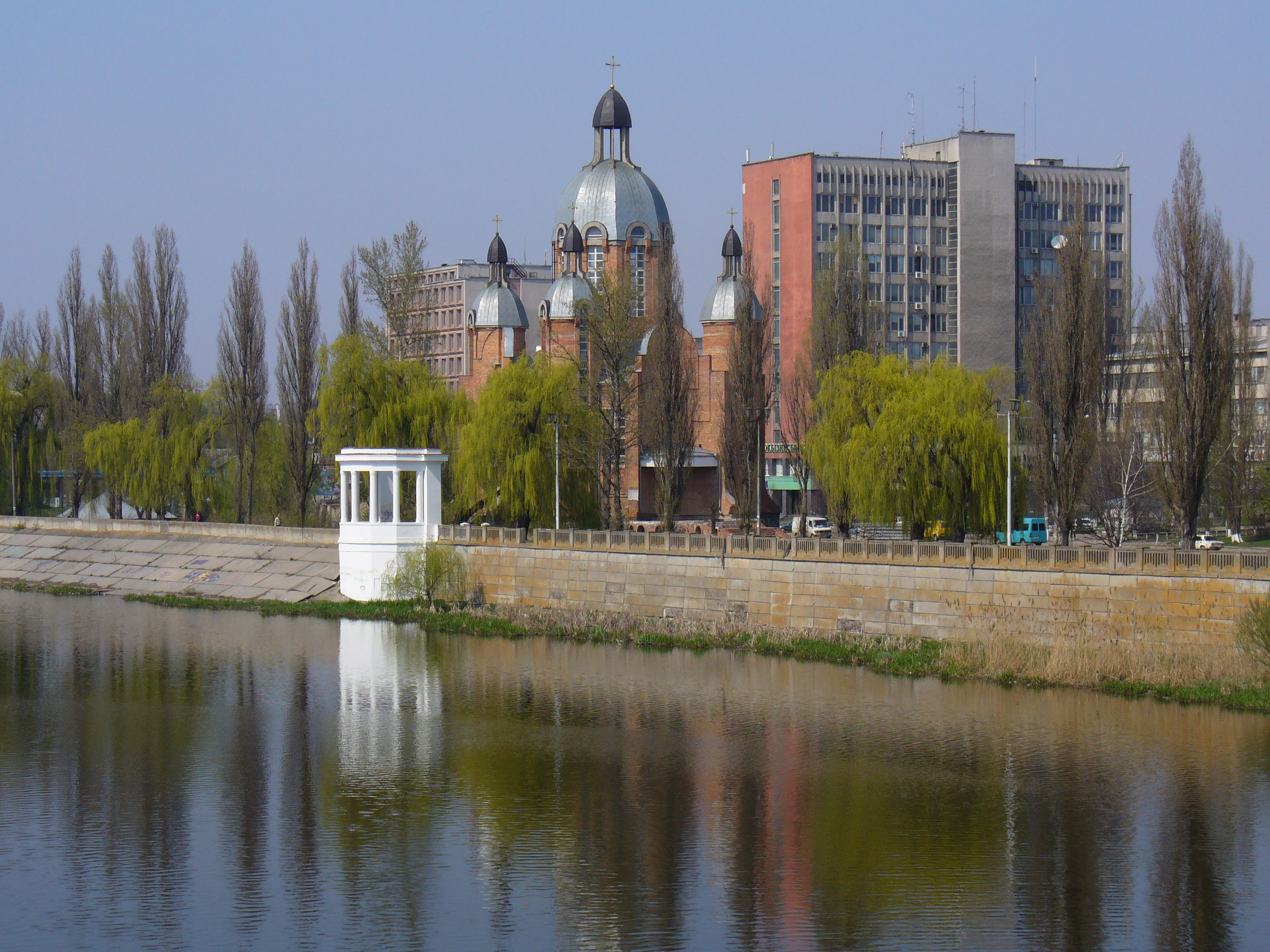 The Southern Bug river. Ukraine, Vinnitsa